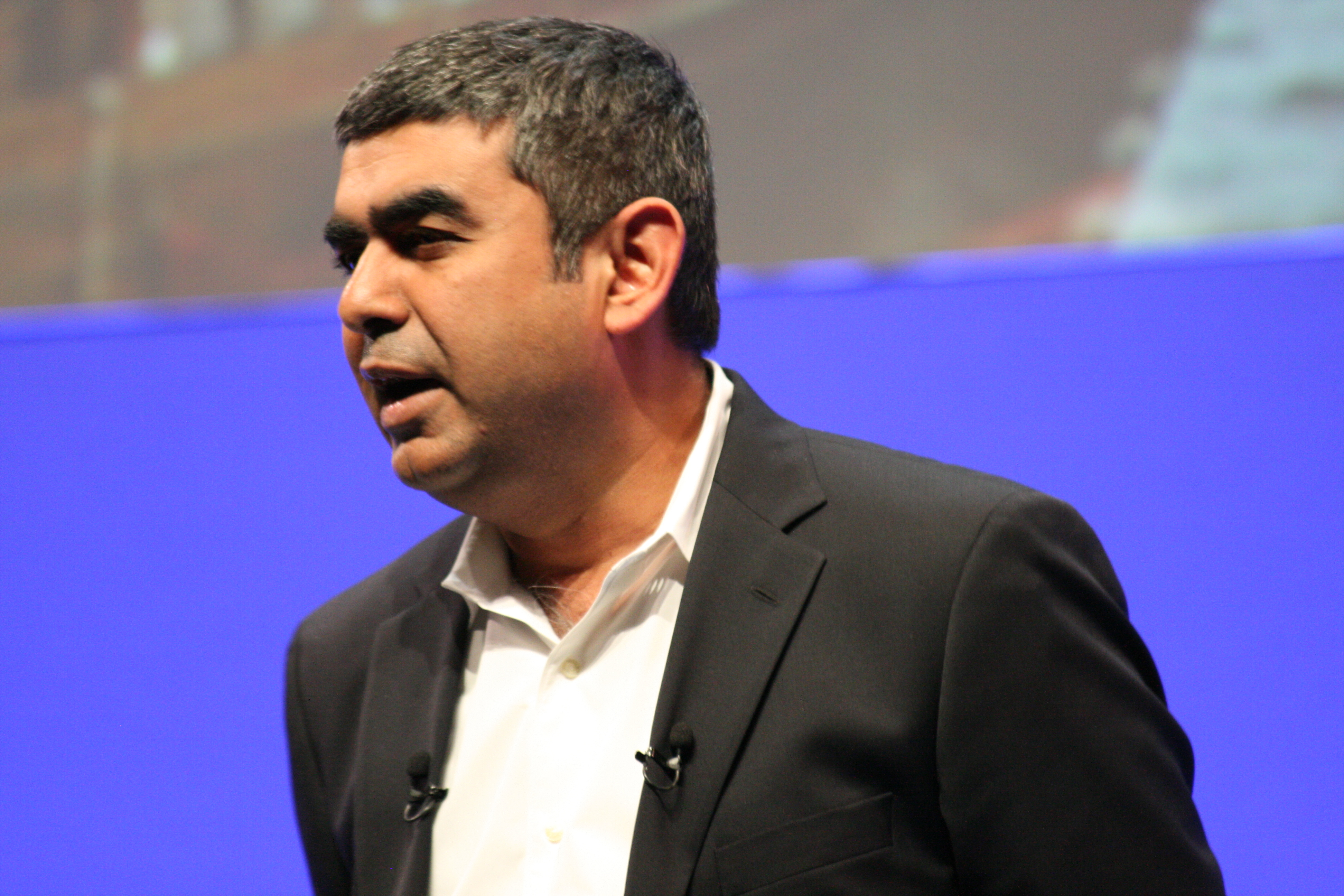 Vishal Sikka onstage for keynote at SAPPHIRE Orlando 2010.